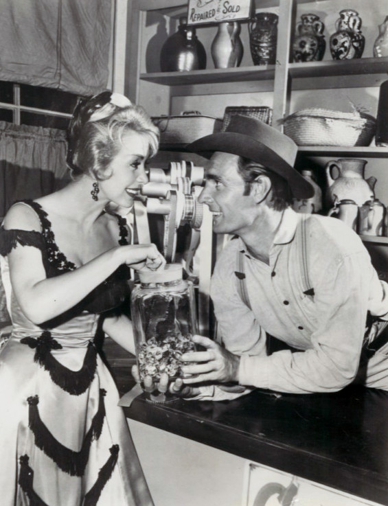 Photo of Dennis Weaver as Chester and Susan Cummings from the television program Gunsmoke.